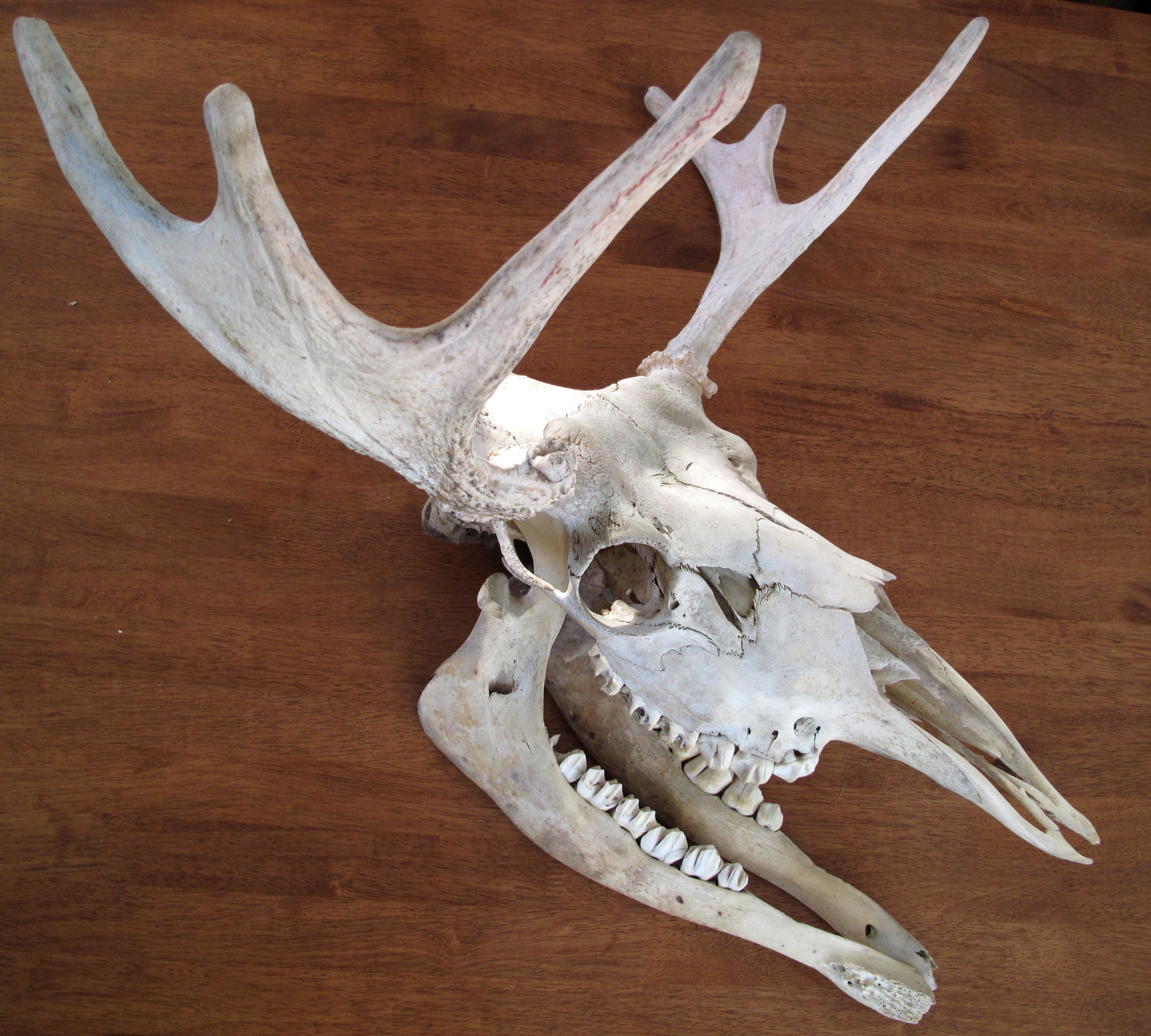 Isabelle Cliche's skulls collection: moose.